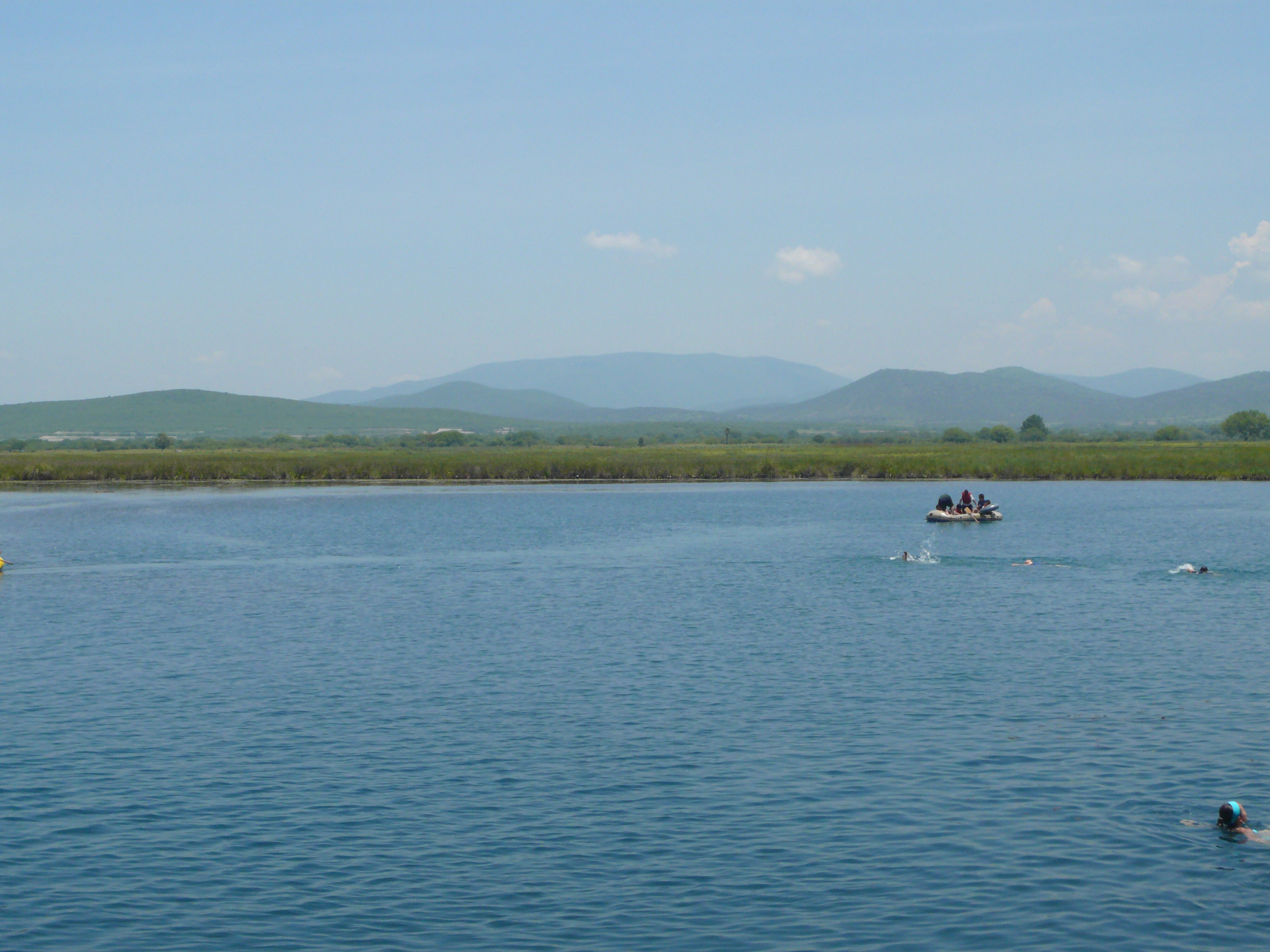 View of the Media Luna lagoon near Rio Verde, San Luis Potosi, Mexico.